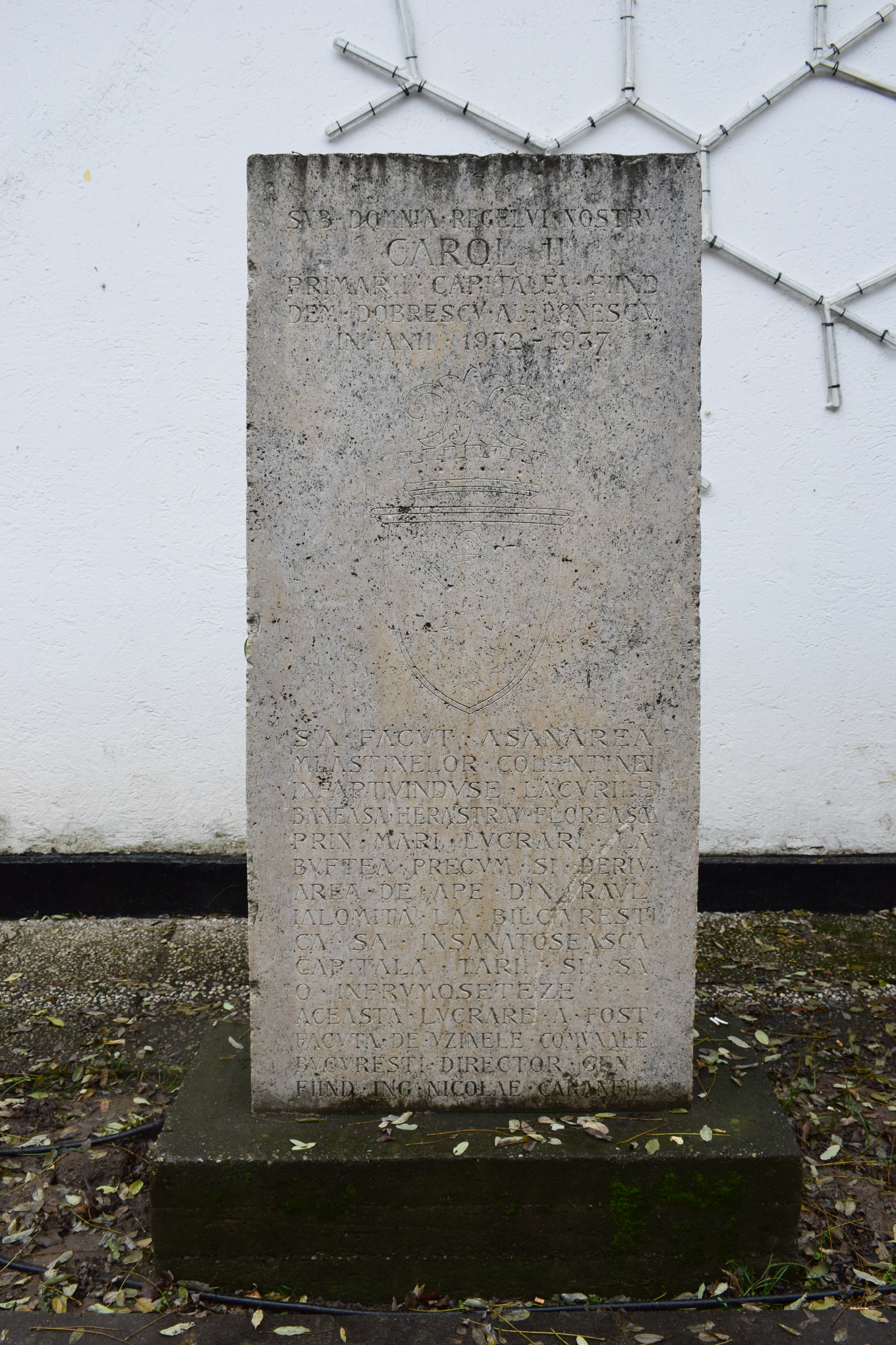 A stone plaque at the entrance of the Village Museum in Bucharest, reminding the creation of the Herăstrău Park and surrounding area (1932-1937), during the reign of HM King Carol II of Romania. The text says: "Under the reign of our King Carol II, Mayors of the Capital City being Dem Dobrescu and Al. Donescu, in 1932-1937 the Colentina marshes were cleaned up and lakes Băneasa, Herăstrău, Floreasca were made, via large works at Buftea, as well as the derivation of the Ialomița river to Bilciureşti, to heal the Capital of the country and embelish it. This work was done by Uzinele Comunale București ("Communal Plants Bucharest"), Gen. Director being Dipl. Eng. Nicolae Caranfil"